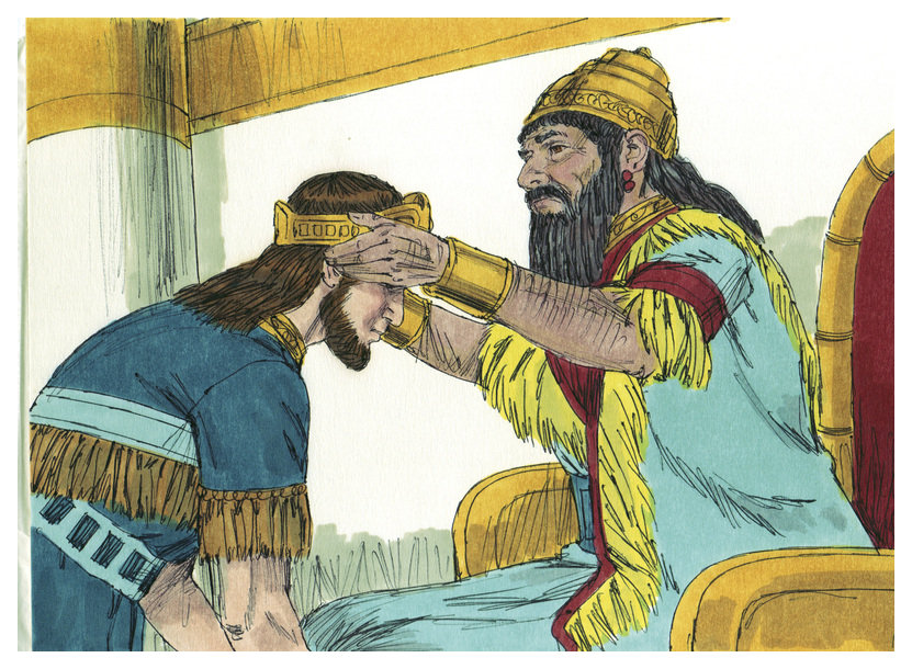 Biblical illustration of Second Book of Kings Chapter 24